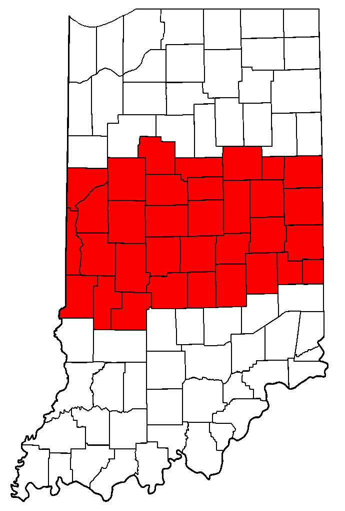 I created this map of counties in Central Indiana on March 20, 2007.